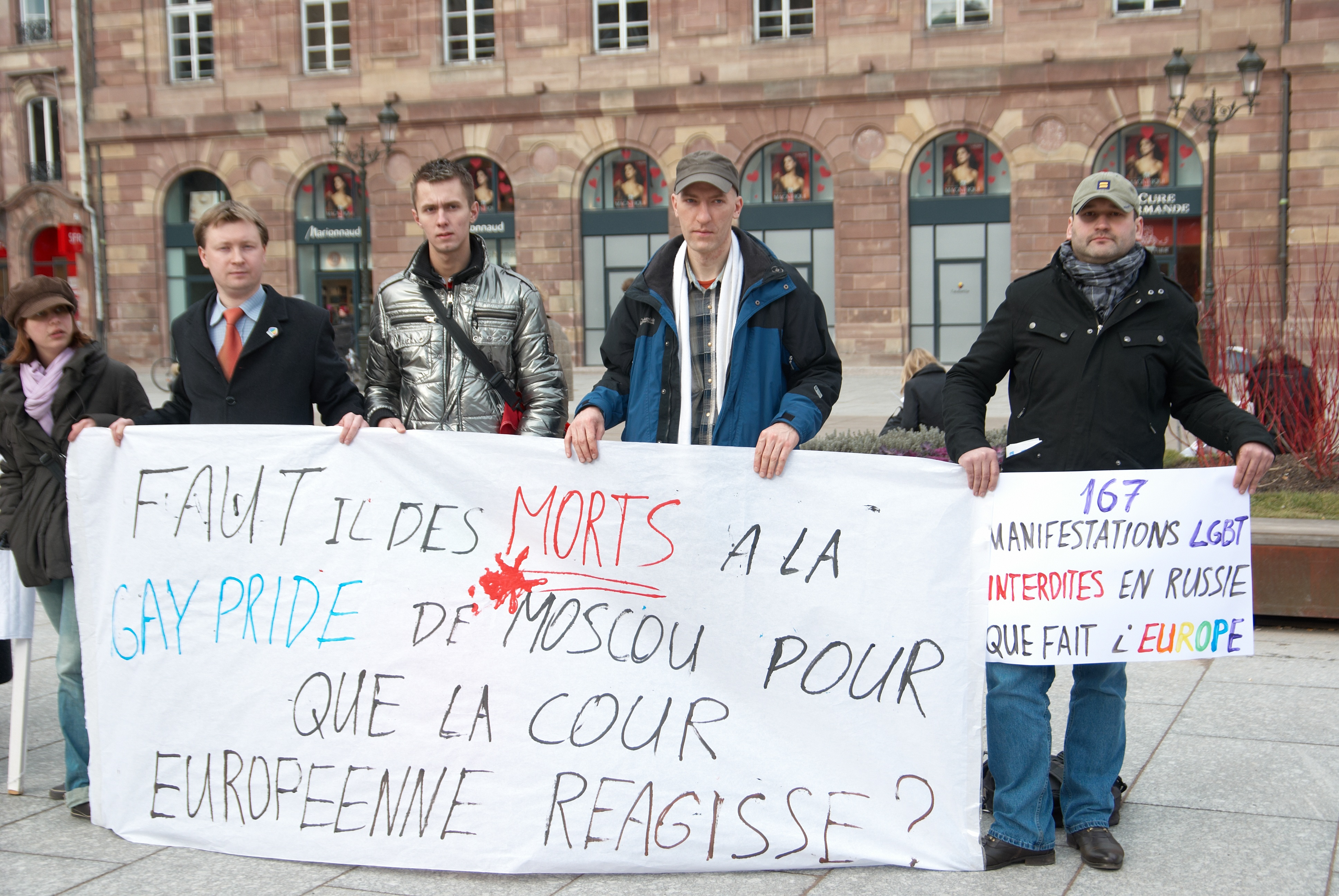 Photo of a protest organized in the center of Strasbourg, France, on February 14, 2009